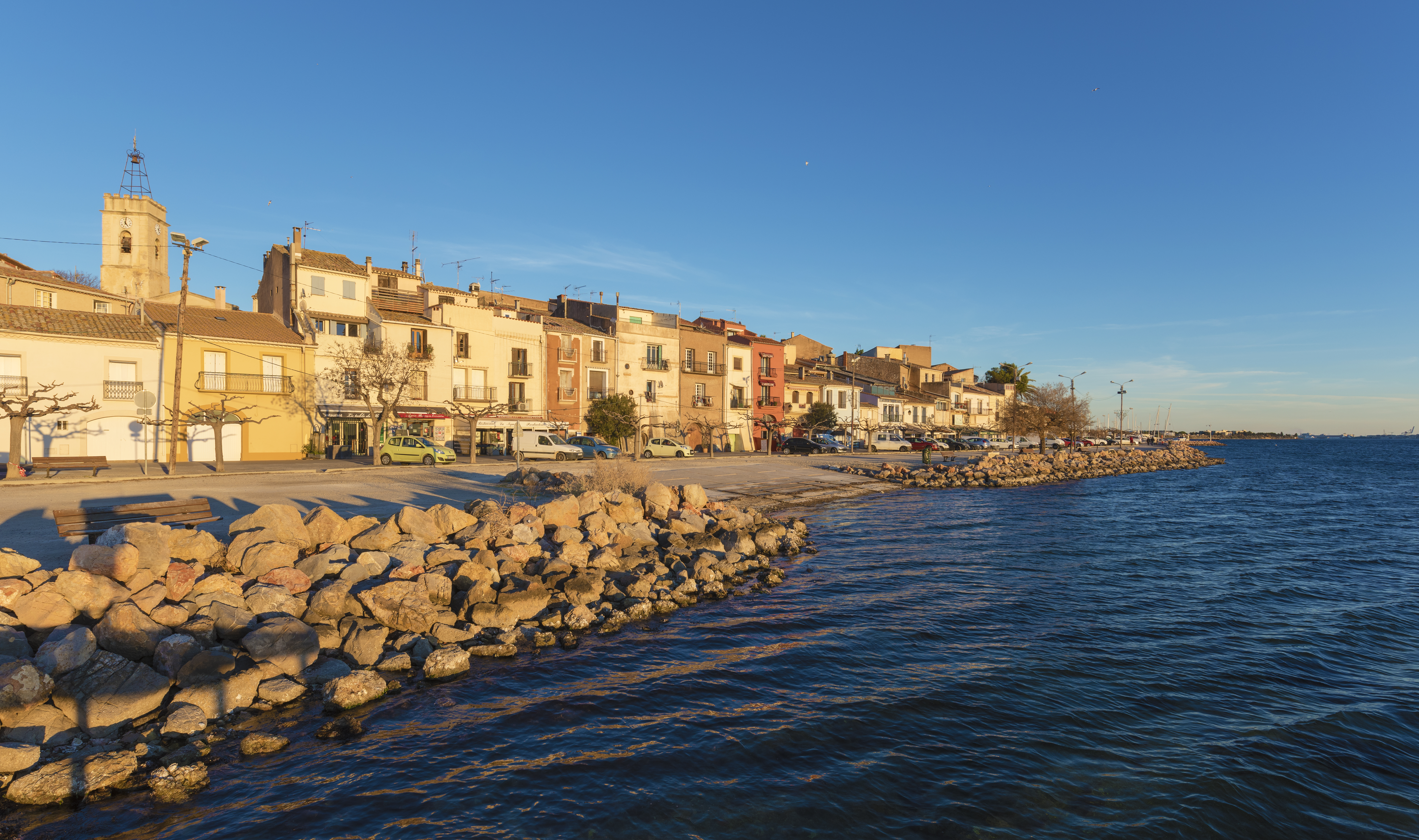 Near the Étang de Thau in Bouzigues, Hérault, France.